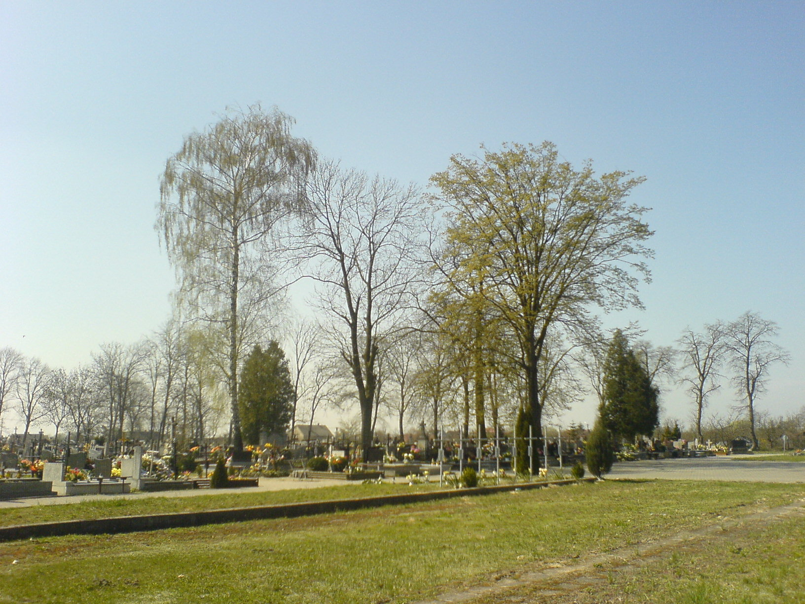 Złoczew (Poland, Łódź Voivodeship, Sieradz County)